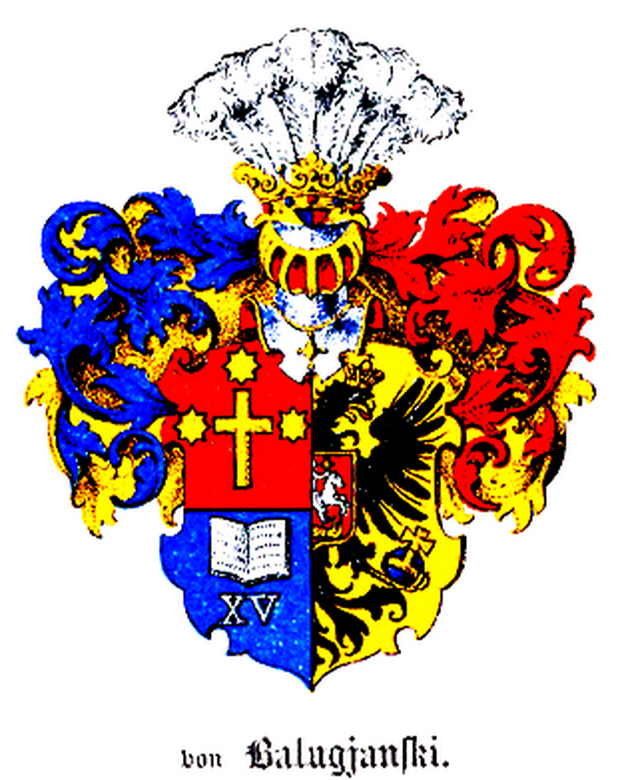 Coat of arms of Balugjanski family